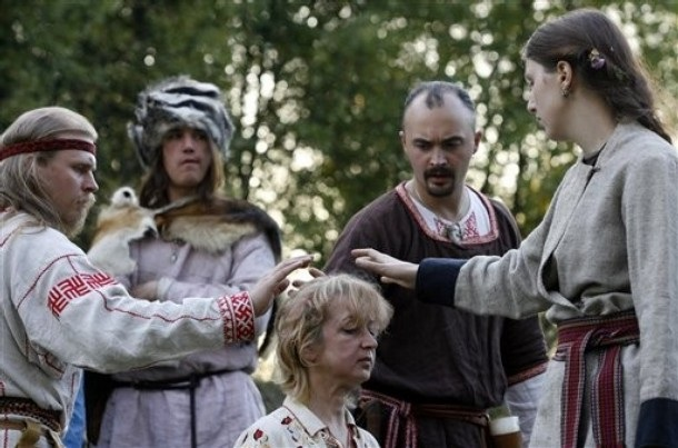 Woman undergoing a ritual of initiation, by the Union of Slavic Rodnover Communities (Союз Славянских Общин Славянской Родной Веры), near Moscow, Russia.